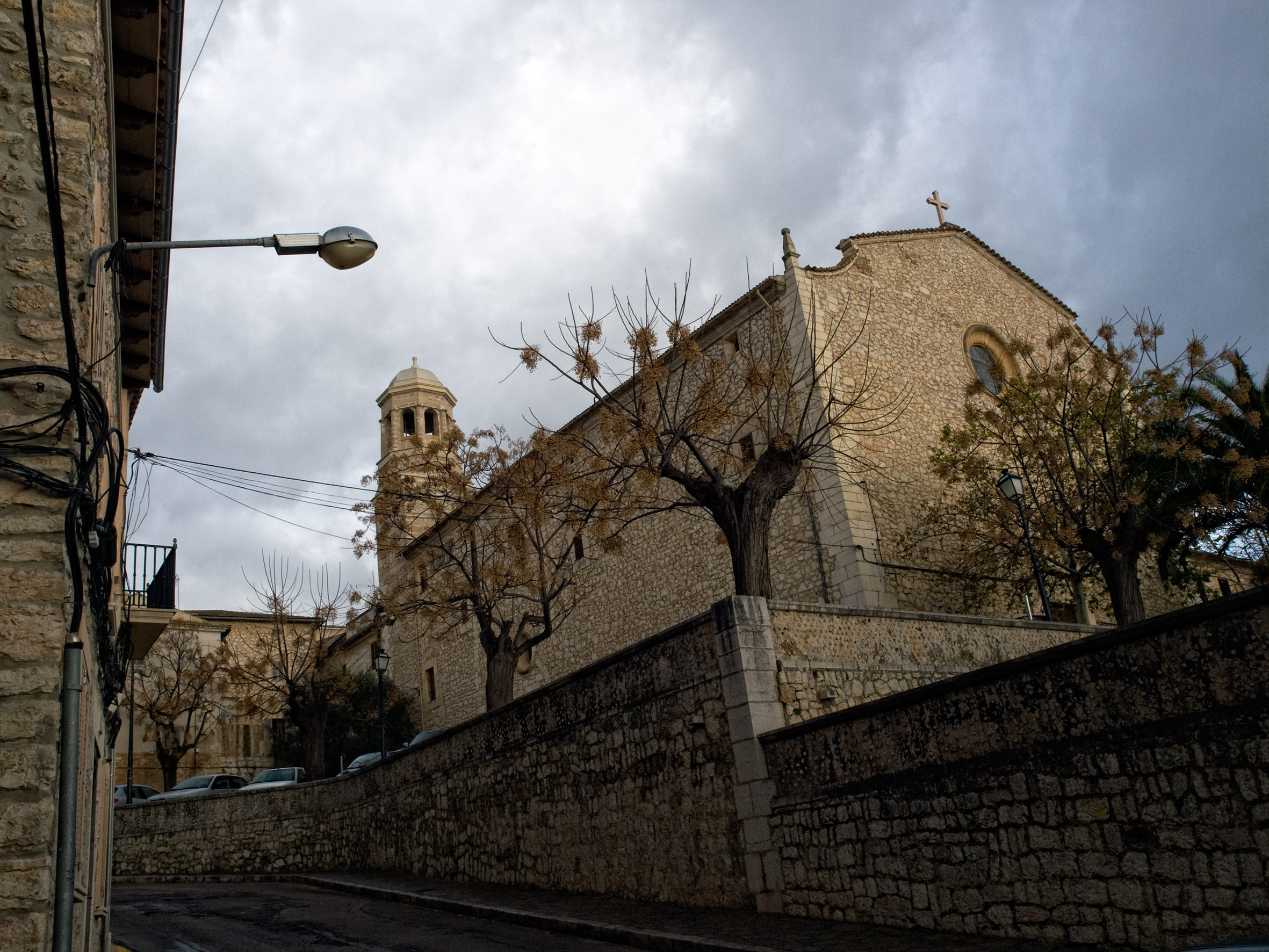 Lloseta church (Mallorca, Spain)